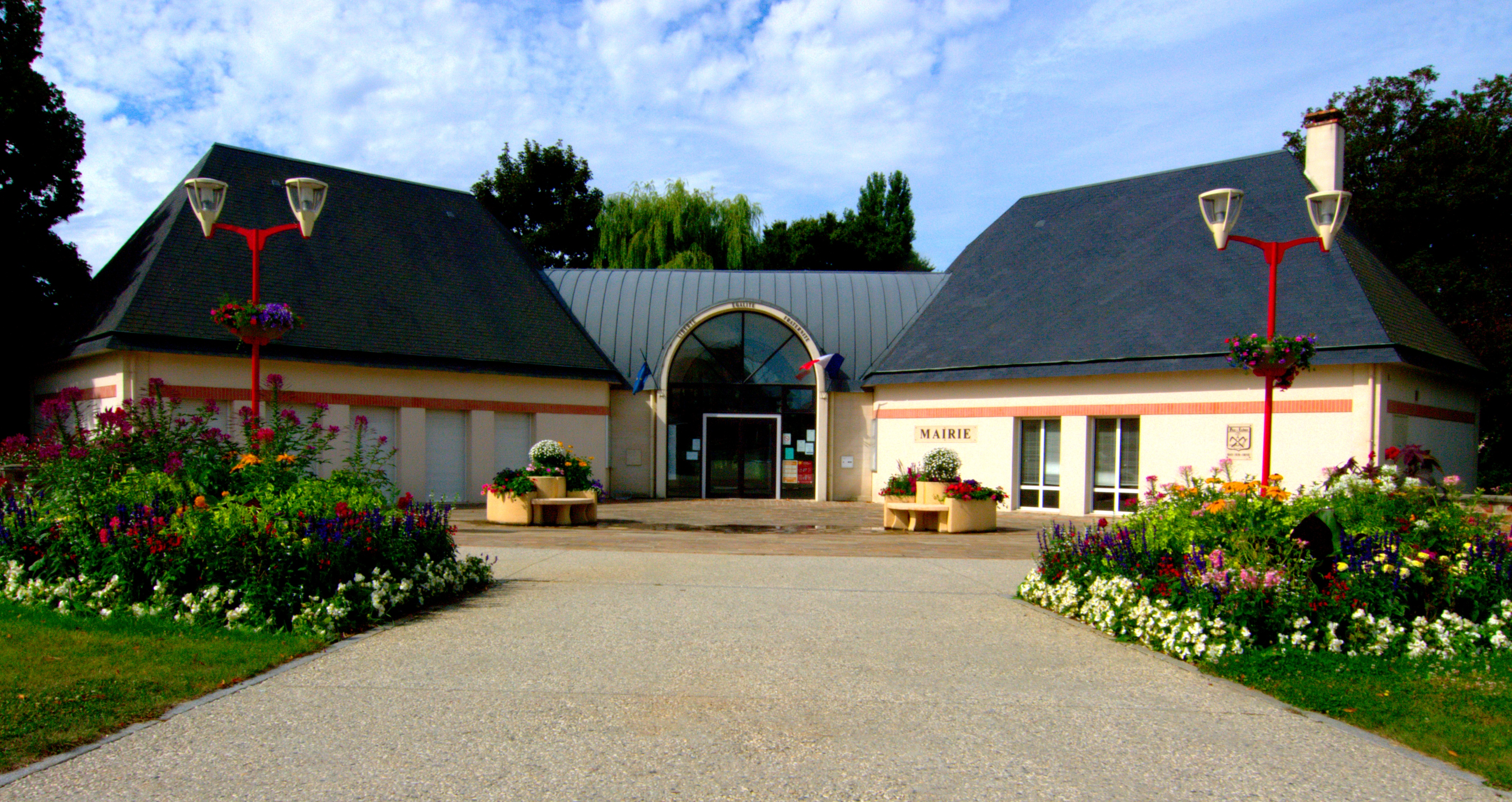 Town hall from May sur Orne, a village in Calvados, in France.